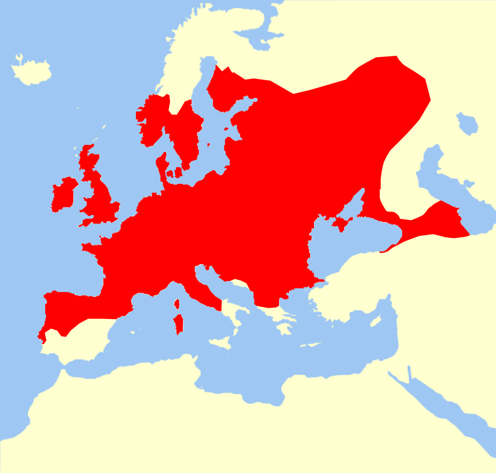 Plecotus auritus range map.